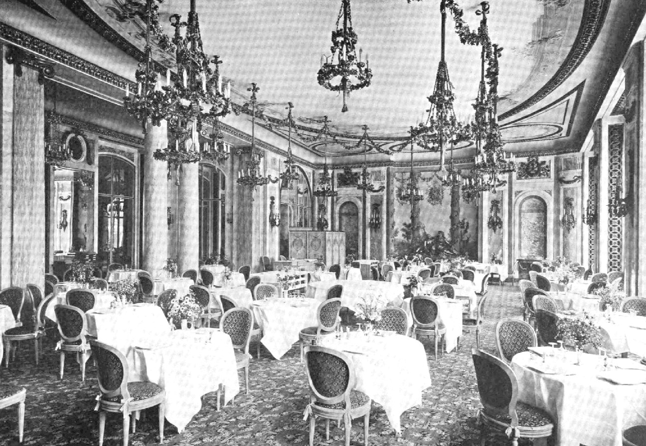 Photo of the dining room of the Ritz Hotel, London.